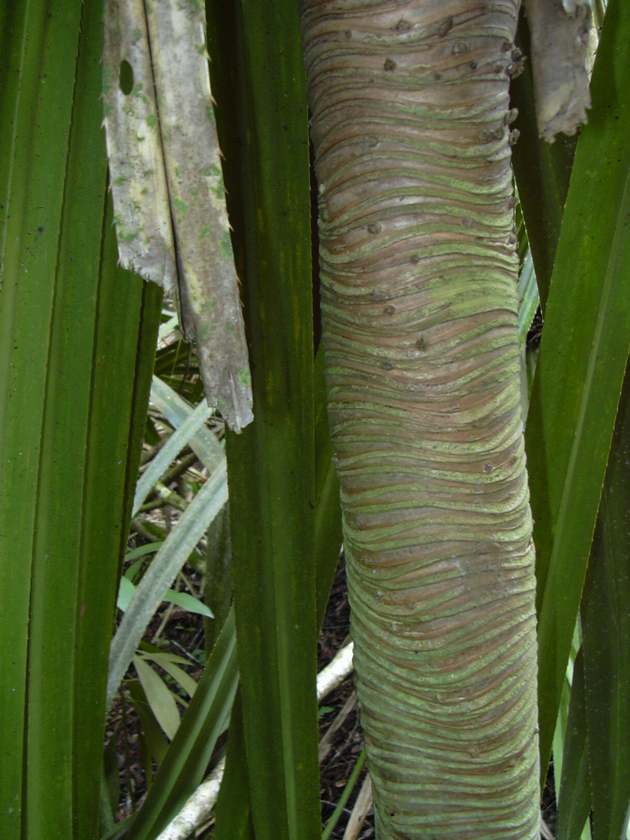 Pandanus tectorius (bark). Location: Maui, Hana Hwy